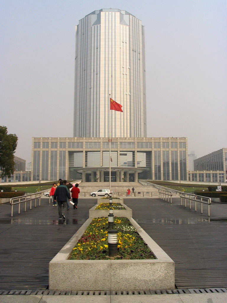 浦东新区人民政府 Pudong New Area Government